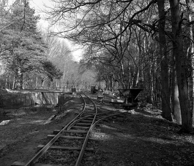 Restoring the Deepcut flight, Basingstoke Canal (1) To assist with the restoration of the Deepcut flight, the canal volunteers laid in a light railway of 'Jubilee' track along the towpath. This was quaite an elaborate affair around a mile long and using rail-mounted skips, as seen in this photograph.